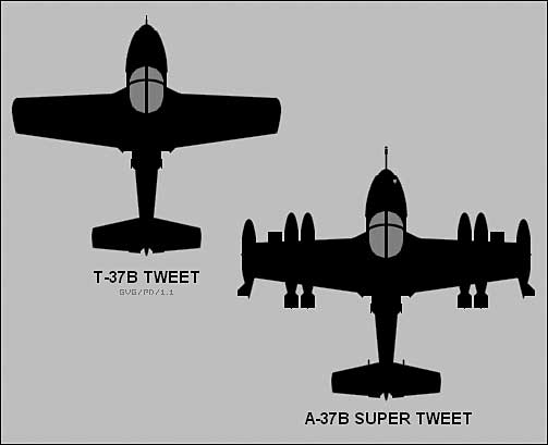 T-37B/A37B comparison sketch (public domain from [1])